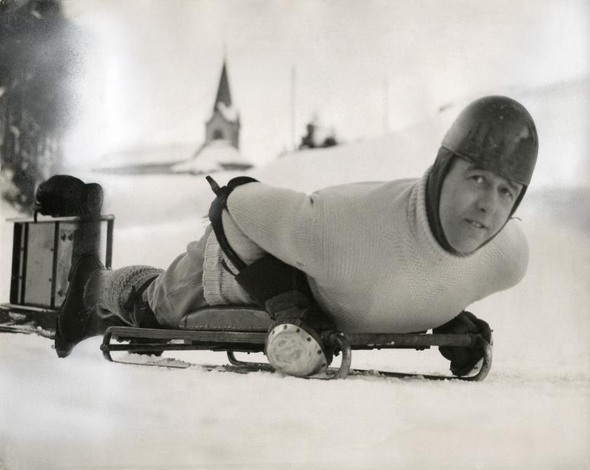 Nationaal Archief / Spaarnestad Photo, SFA002014210 Bobsleeën, skeleton. De Engelsman Lord Northesk bij de afdaling van de Cresta-baan in St. Moritz, Zwitserland, januari 1935. Bobsleigh, skeleton: lord Northesk in St. Moritz, Switzerland, 1935. Collectie Spaarnestad Voor meer informatie en voor meer foto’s uit de collectie van Spaarnestad Photo, bezoek onze Beeldbank: U kunt ons helpen onze kennis van de fotocollecties te verrijken door tags en commentaren toe te voegen. Herkent u mensen of locaties of heeft u een bijzonder verhaal te vertellen bij één van de foto’s, laat dan een reactie achter (als u ingelogd bent bij Flickr) of stuur een mailtje naar: You can help us gain more knowledge on the content of our collection by simply adding a comment with information. If you do not wish to log in, you can write an e-mail to